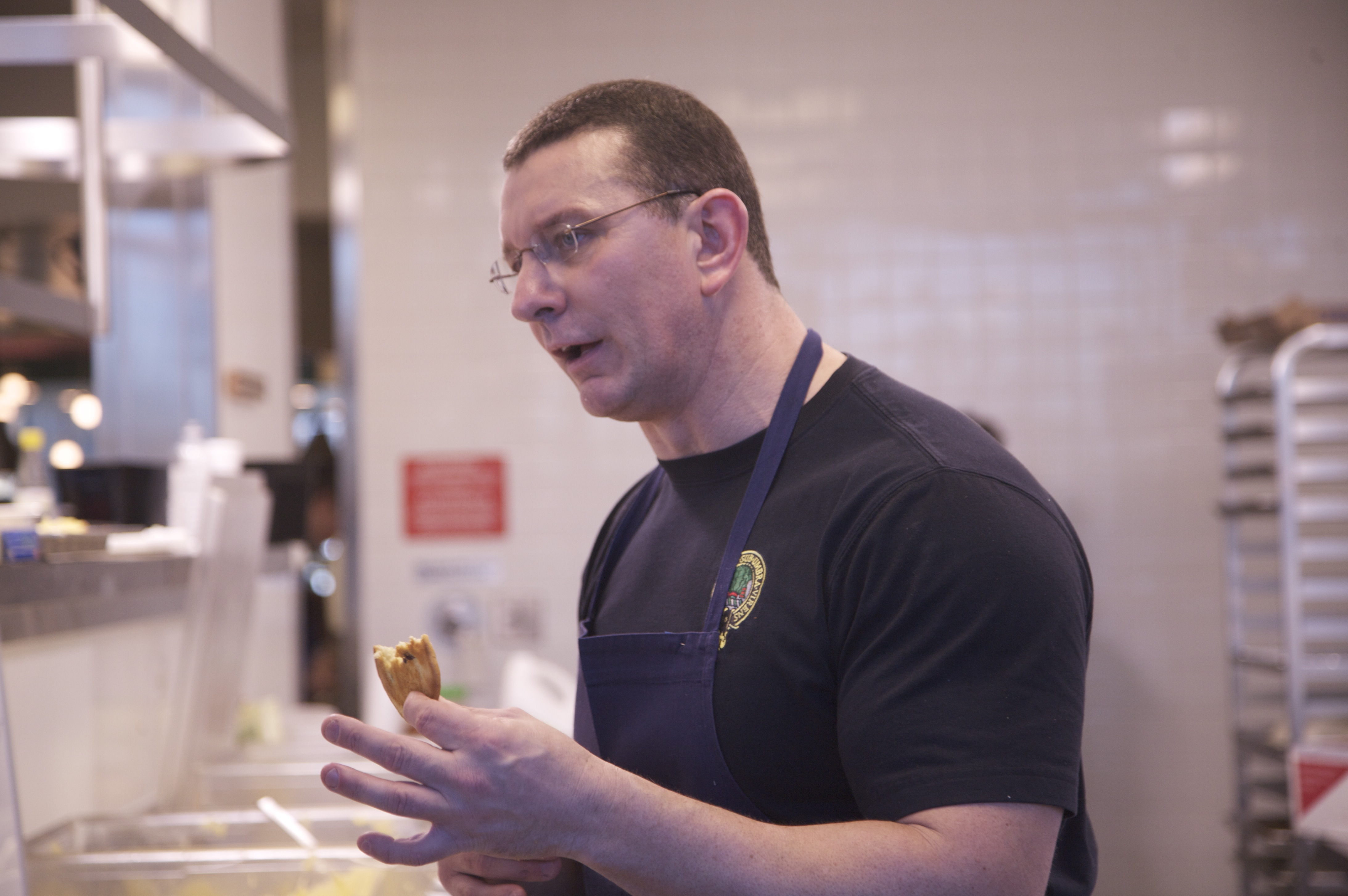 "Dinner Impossible" chef Robert Irvine giving his verdict on finished item